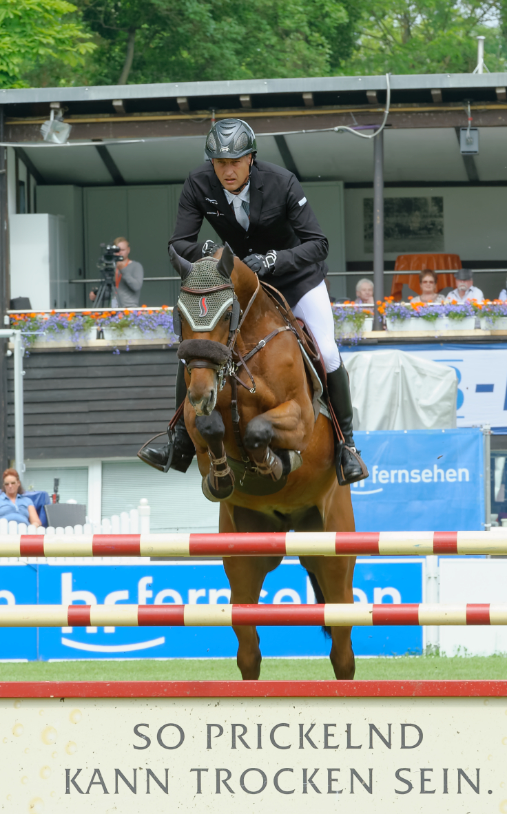 CSIYH* int. Springprüfung nach Strafpunkten und Zeit Internationales Pfingstturnier Wiesbaden 2015 The making of this document was supported by the Community-Budget of Wikimedia Germany.